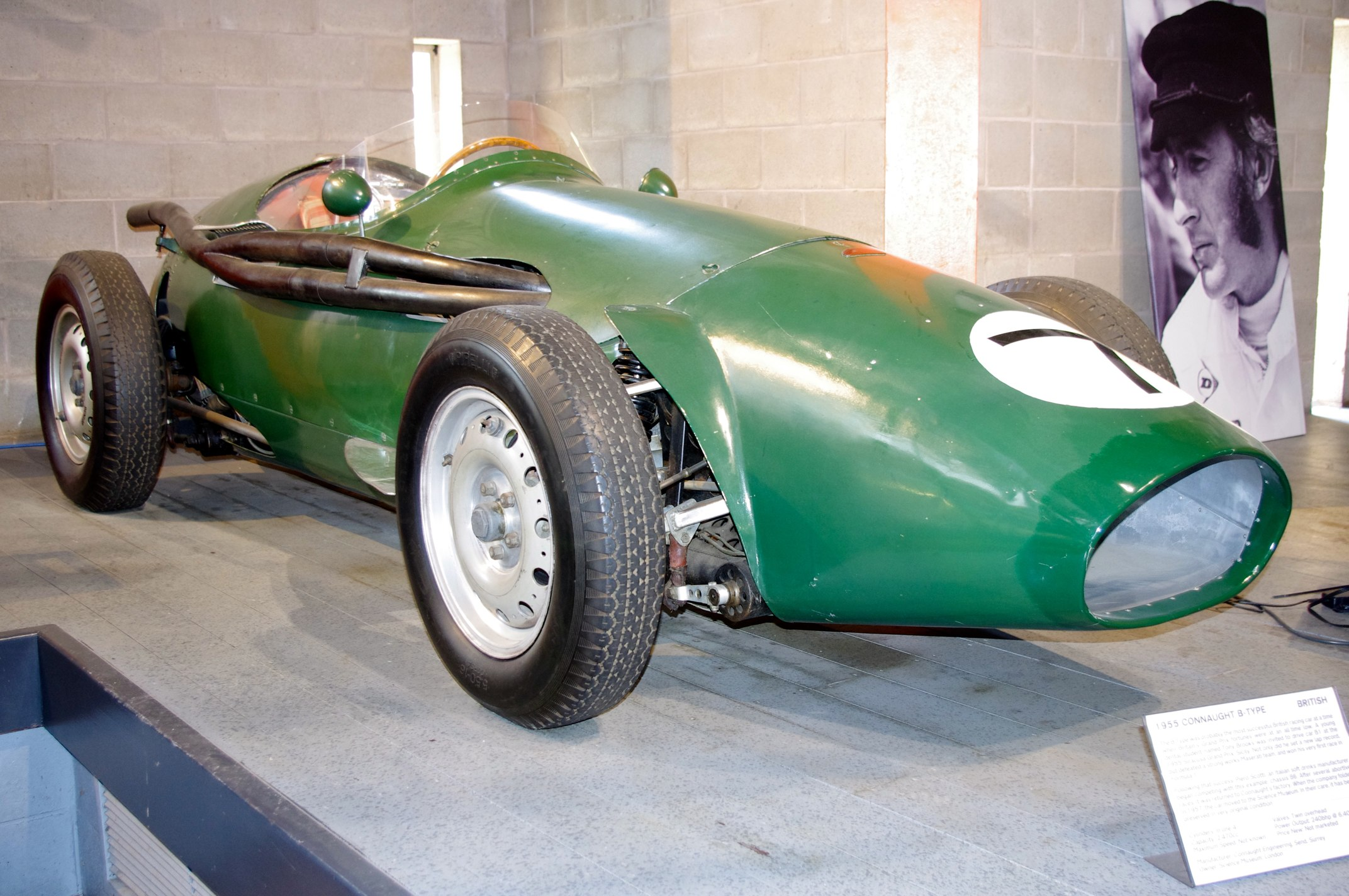 1955 Connaught B-Type in National Motor Museum, Beaulieu